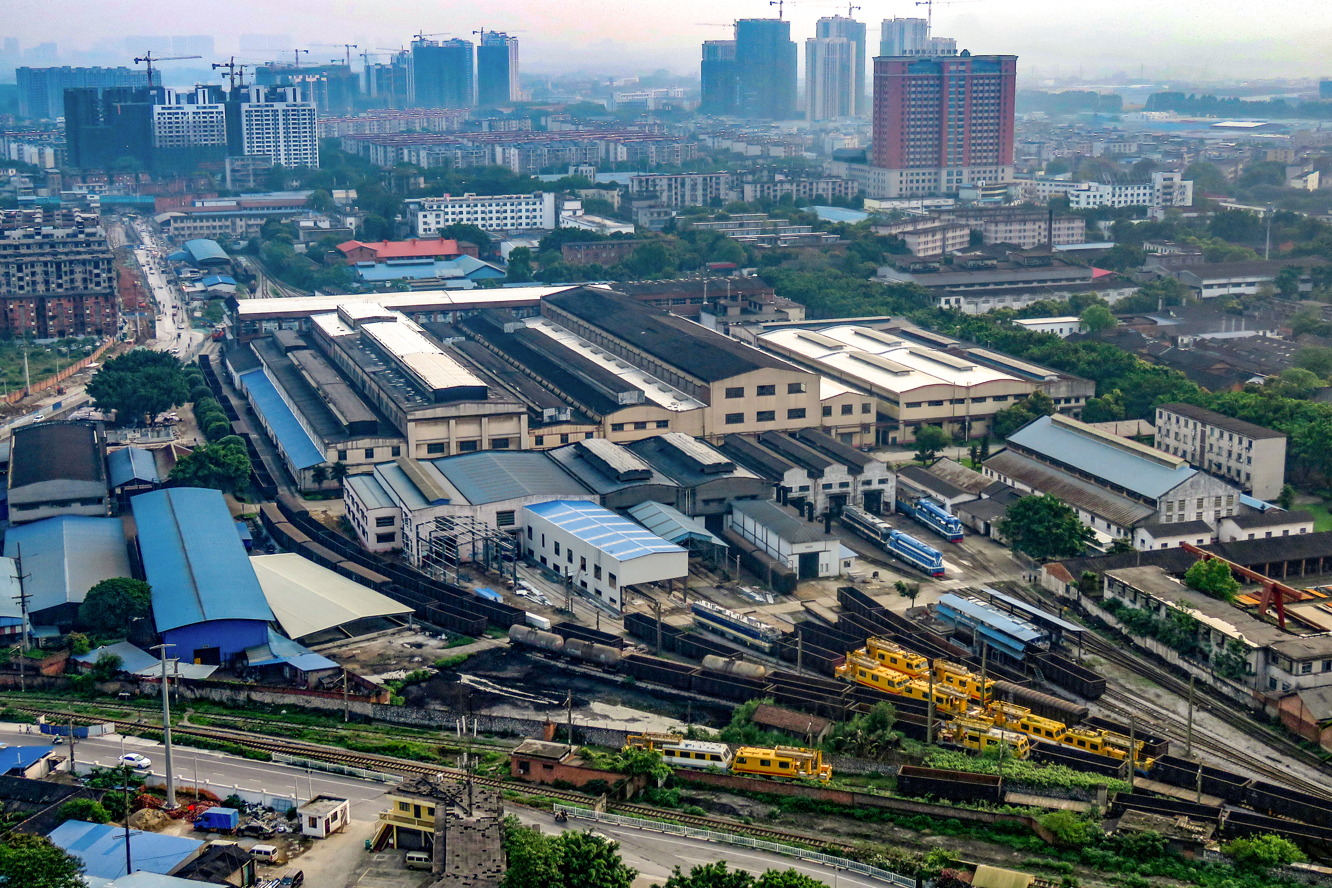 Renamed in August 2018.